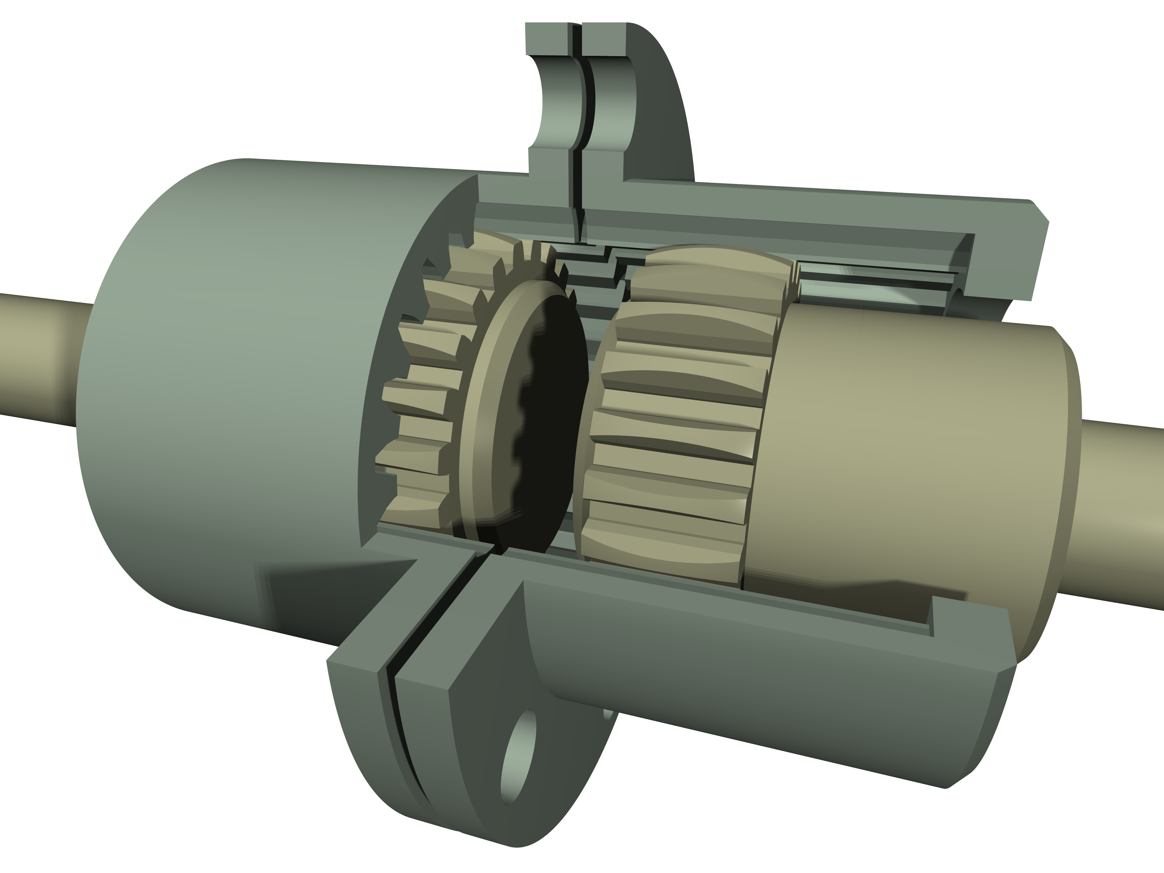 Illustration of a gear coupling. Rendered in POV-Ray.